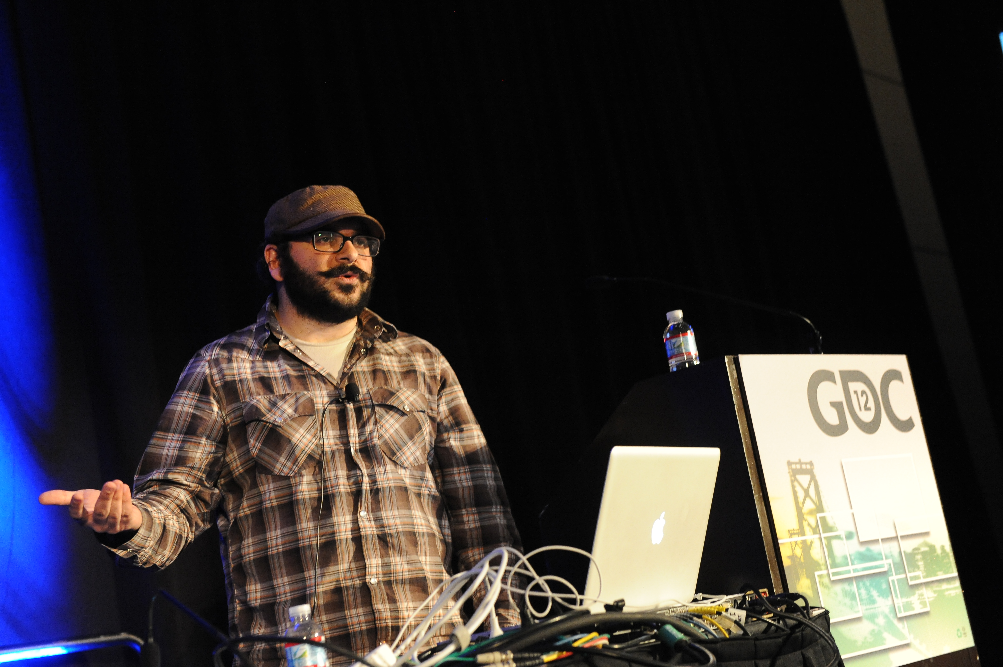 Presenter: Dave Samuel (Volition) (c) The Photo Group 2012